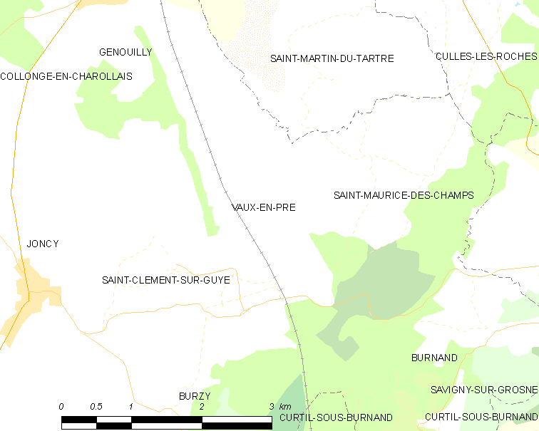 Map of French municipality